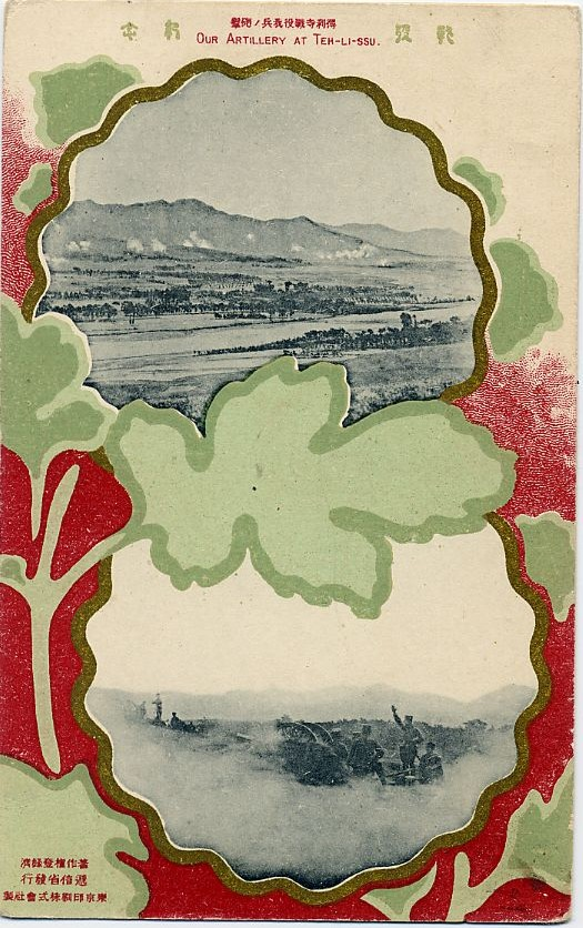 Japanese postcard depicting Battle of Te-li-ssu in the Russo-Japanese War of 1904-1905. Published 1904.12.25 by the Japanese Ministry of Communication.